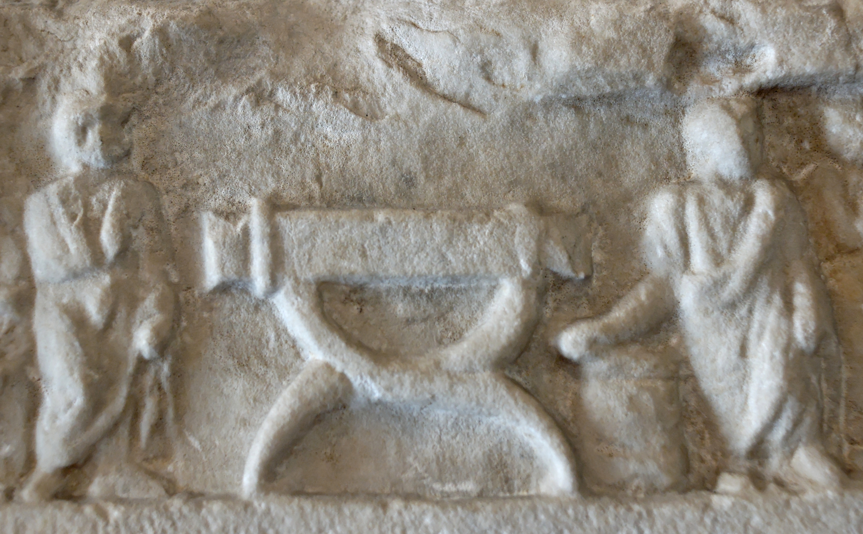 Funerary relief representing a curule chair. Marble, Roman artwork, 50 BC–50 CE. From the Torre Gaia at Via Casilina (Rome).